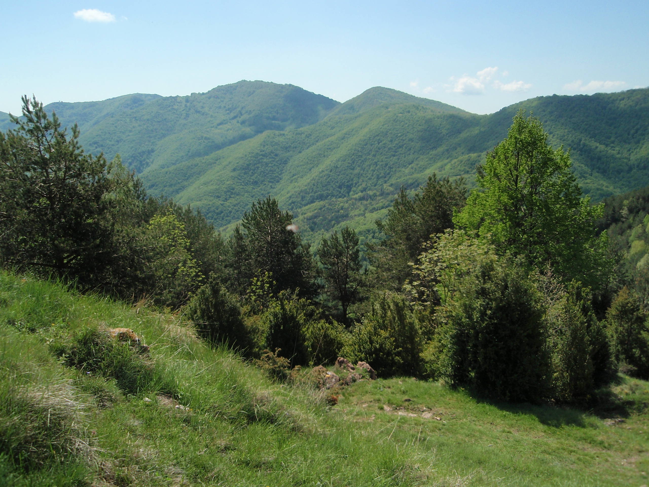 Puig Ou seen from La Creueta pas (N.W.). Alta Garrotxa, Catalonia.